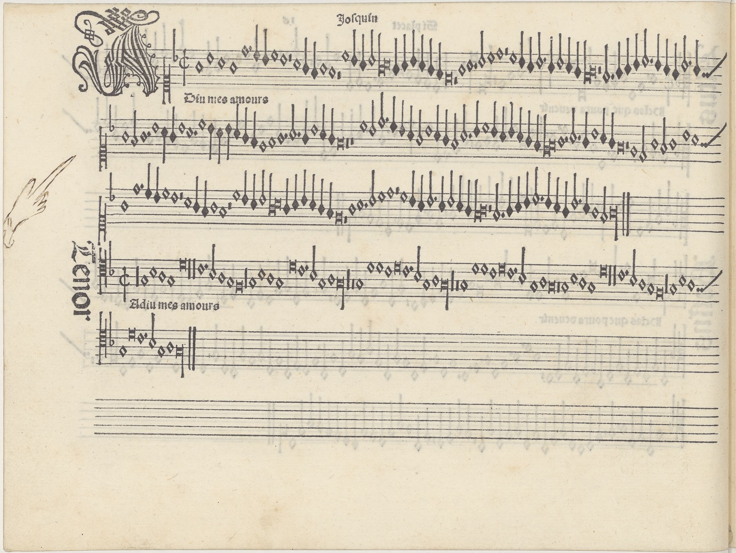 Tenor musical score part of Adieu mes amours by Josquin des Prez from Odhecaton. Text: Josquin A Dieu mes amours TENOR Adieu mes amours